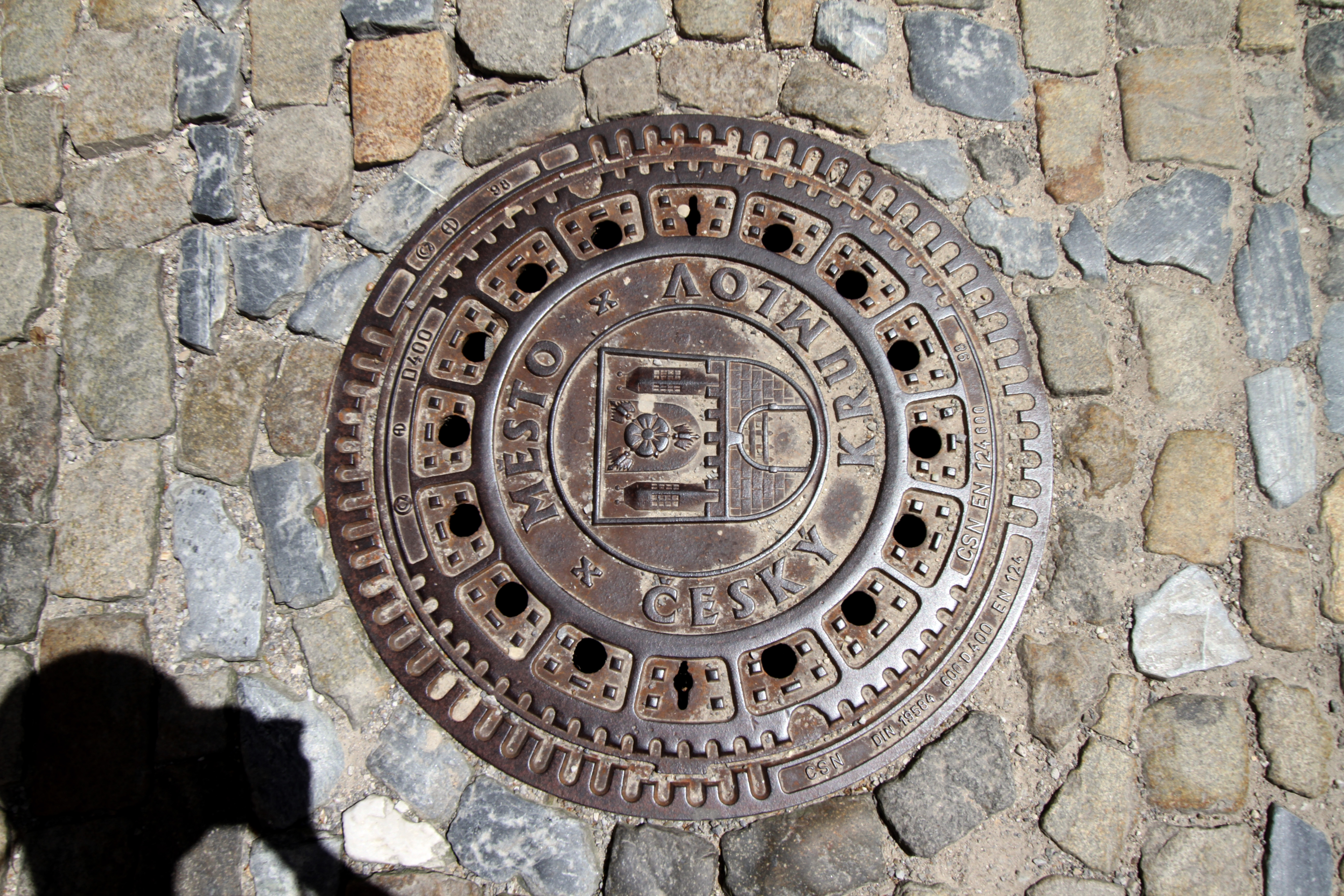 Český Krumlov